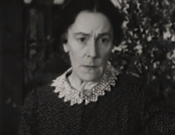 Blanche Friderici in Man of the Forest (1933) - cropped screenshot.